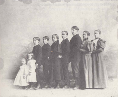 Screenshot-2017-10-1 SIGNED Sterling Lord Victorian Vignettes Eda Hurd Lord 1963 Burlington IA eBay(1)